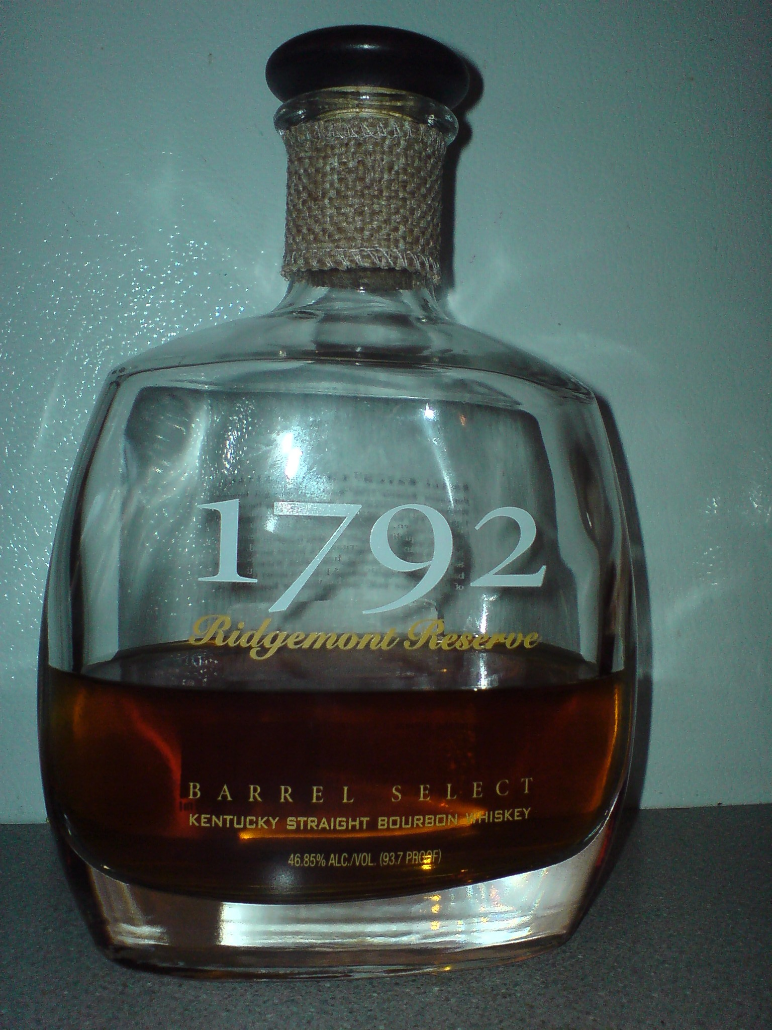 1792 bourbon whiskey